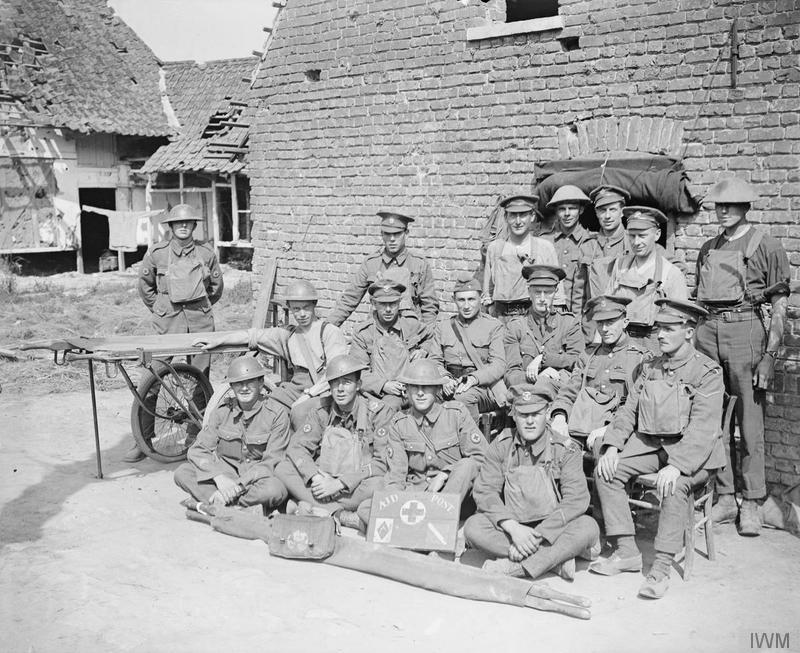 The Hundred Days Offensive, August-november 1918 Troops of the 230th Field Ambulance RAMC and the 12th (West Somerset Yeomanry) Battalion, Somerset Light Infantry, 74th Yeomanry Division at the Regimental Aid Post. Near Carvin, 14 August 1918.